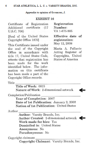 Page 6 of the concurring opinion of Justice Ruth Bader Ginsburg in Star Athletica, L. L. C. v. Varsity Brands, Inc., in which she points out that the designs were copyrighted as 2-dimensional artwork in filings with the U.S. Copyright Office, which supports the reasoning of her opinion.